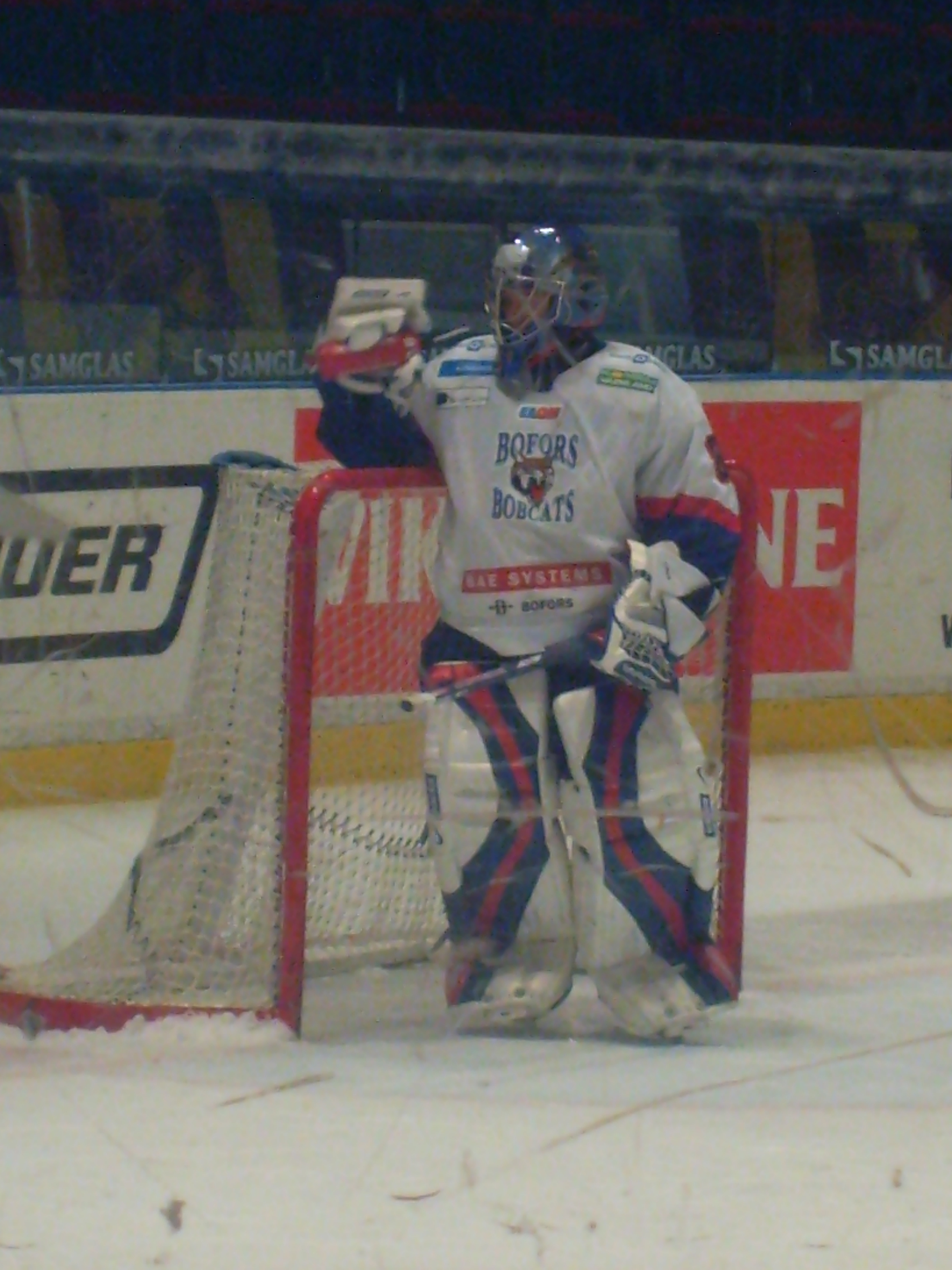 Micael Andersson, Swedish ice hockey player.